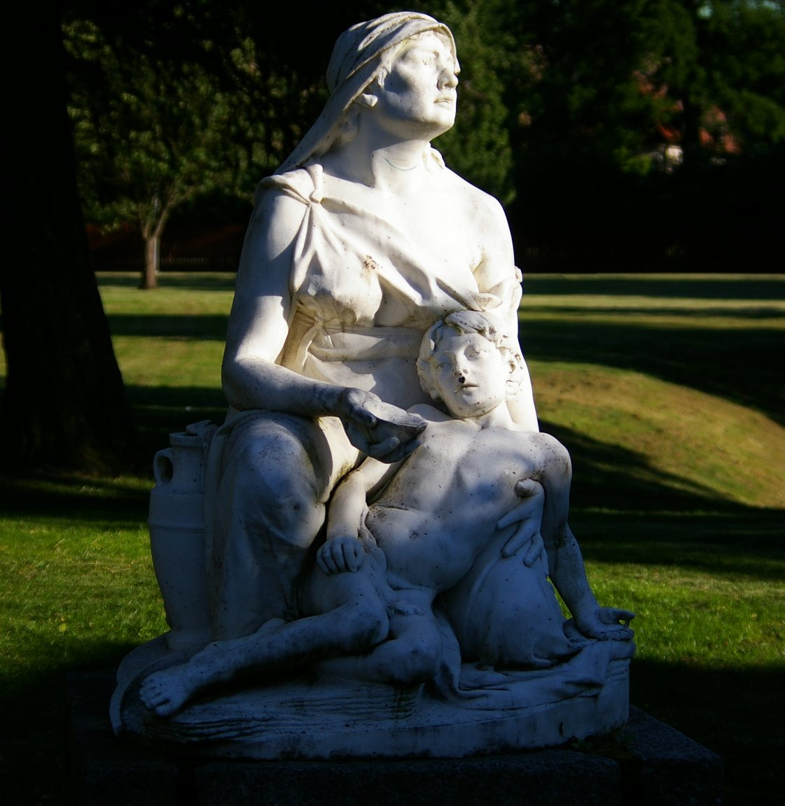 Hagar och Ismael (1884), statue in white marble by Alfred Nyström (1844–1897), erected near Östergötland County Museum in Linköping, Sweden.